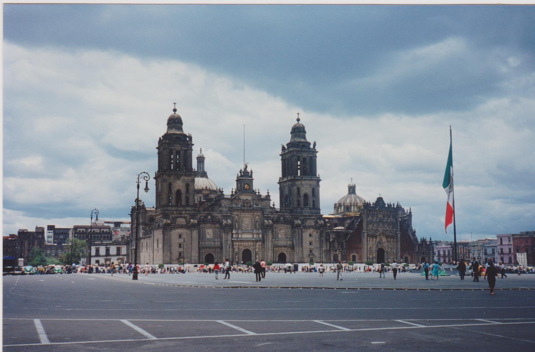 Mexico Cathedral